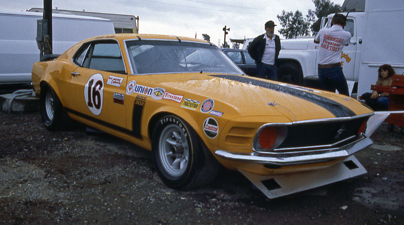 The restored Bud Moore Engineering Ford Mustang driven by George Follmer in the 1970 SCCA Trans-American Championship, photographed at Sears Point International Raceway in 1984.